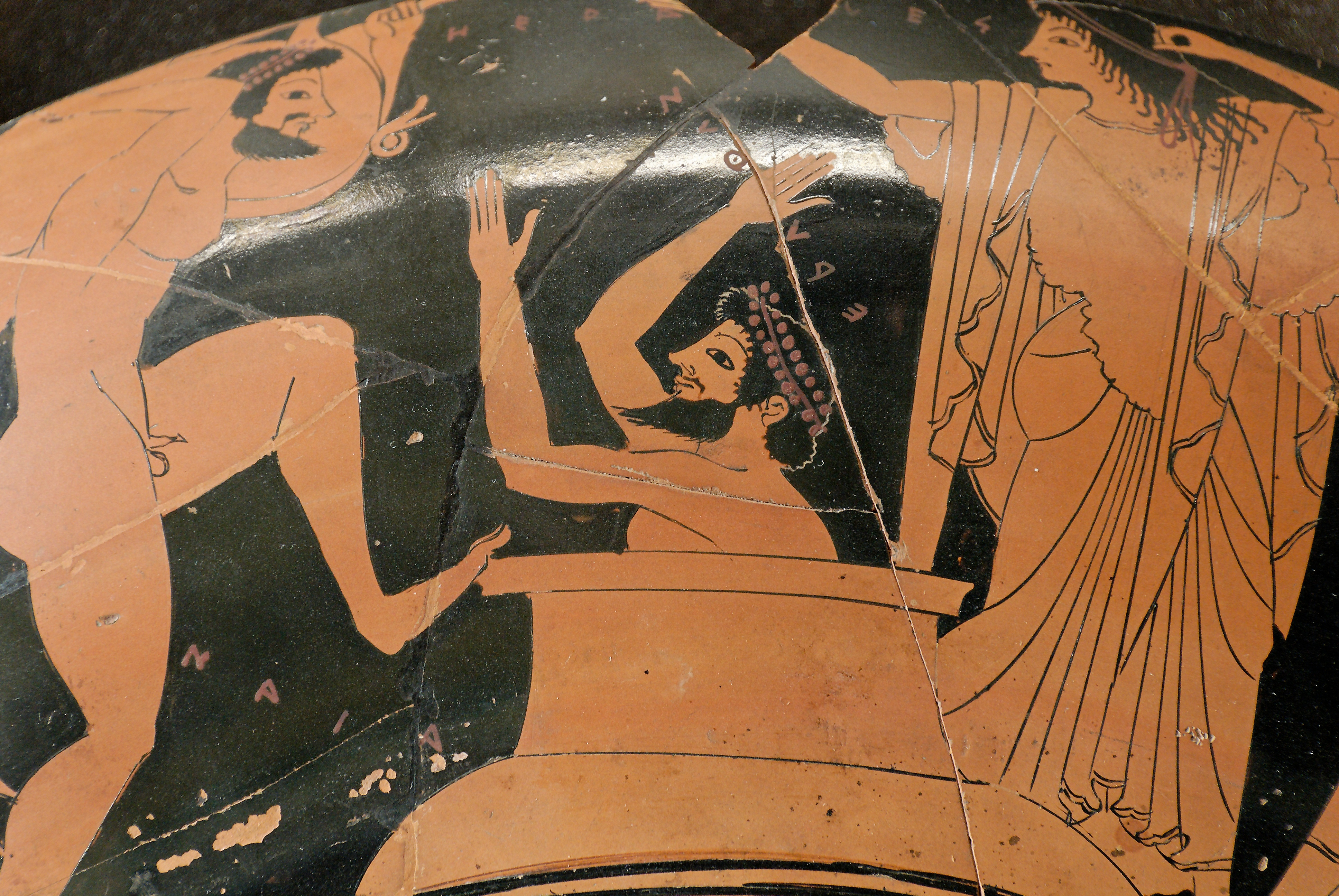 Heracles brings Eurystheus the Erymanthian boar. Side A from an Attic red-figure cup, ca. 510 BC.